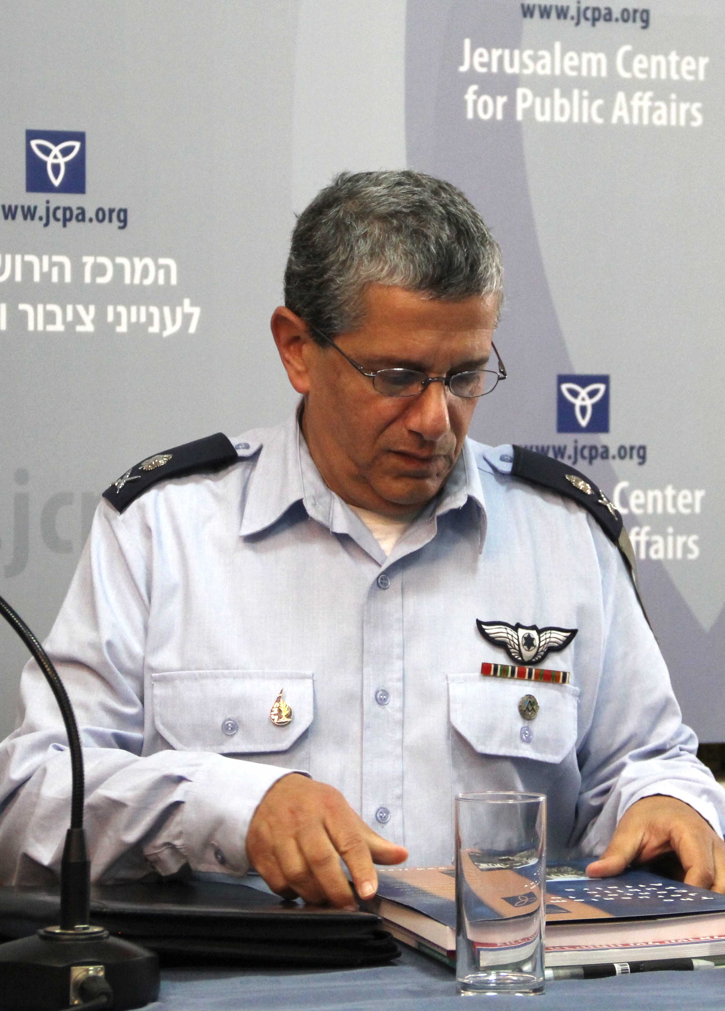 January 17, 2012 Major General Amir Eshel, the new Israel Air Force Commander. Read more: New IAF Commander Appointed Photo taken by Cpl. Topaz Luk, IDF Spokesperson's Unit The Israel Defense Forces Facebook The Israel Defense Forces blog Follow us on Twitter